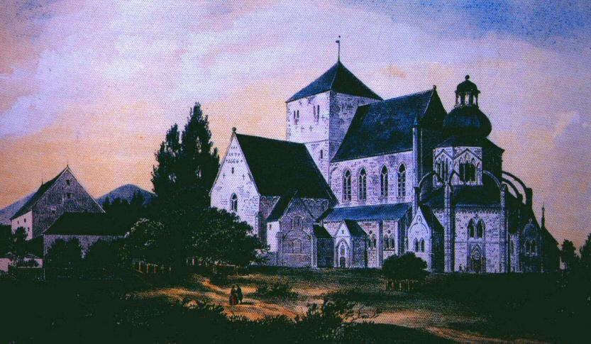 Nidaros cathedral in Trondheim, Norway